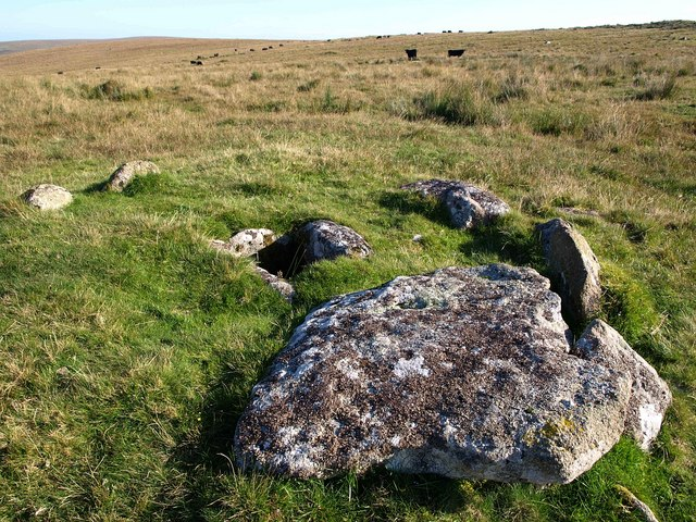 The Crock of Gold. Another view of 172836 from the other direction, with the cist cover in the foreground. Black cattle graze in the background.